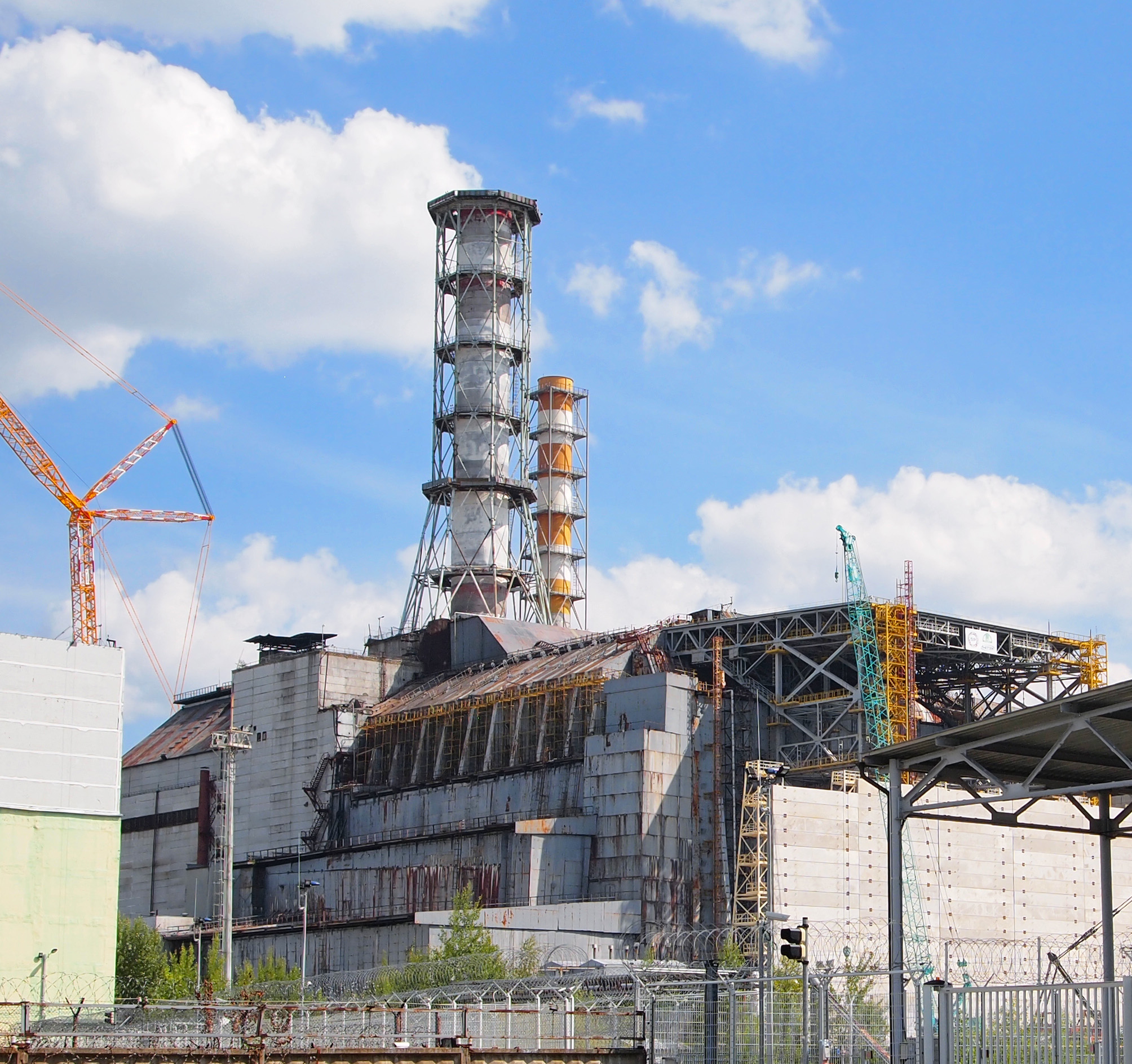 Reactor 4 in Chernobyl Nuclear Power Plant in Ukraine. Photo is taken in August 2013.